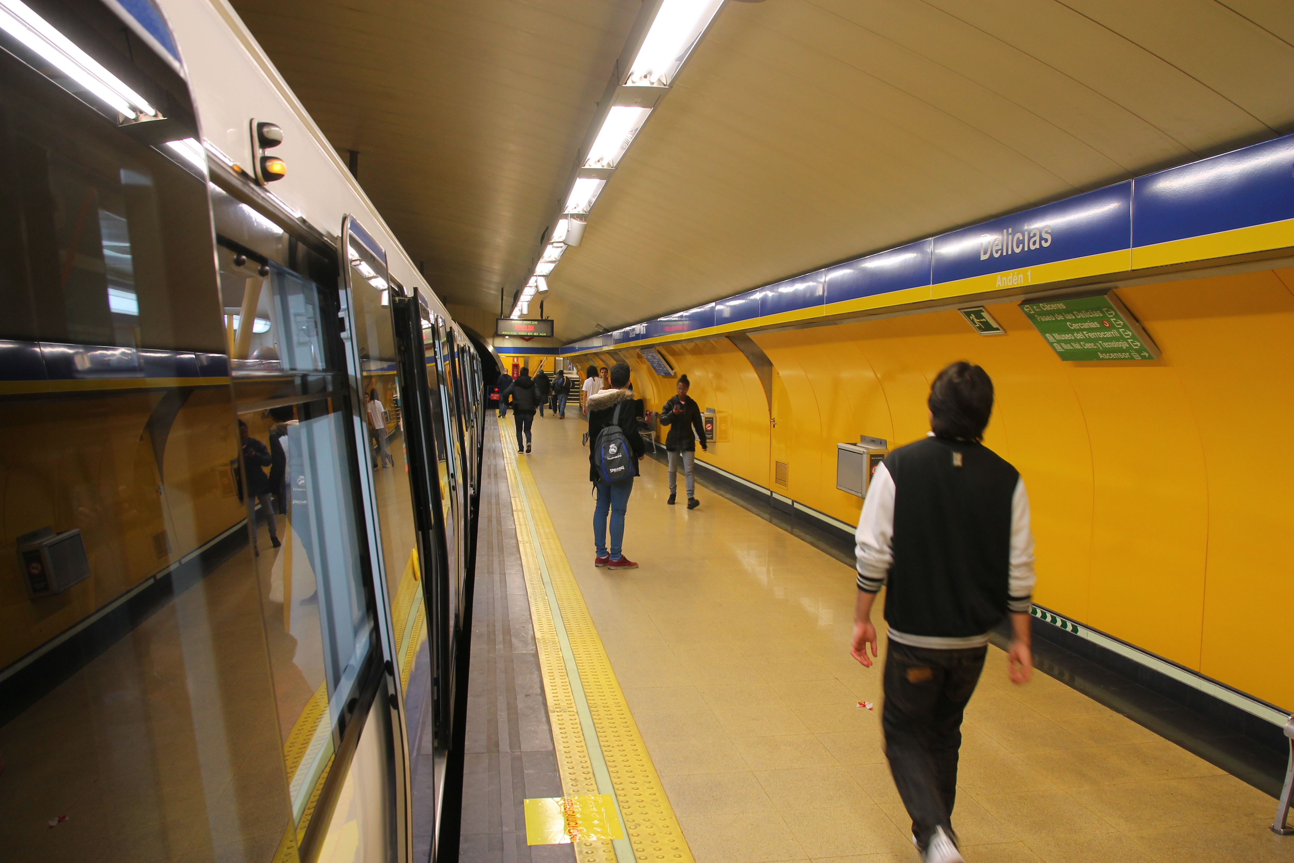 Delicias station. Madrid Metro.